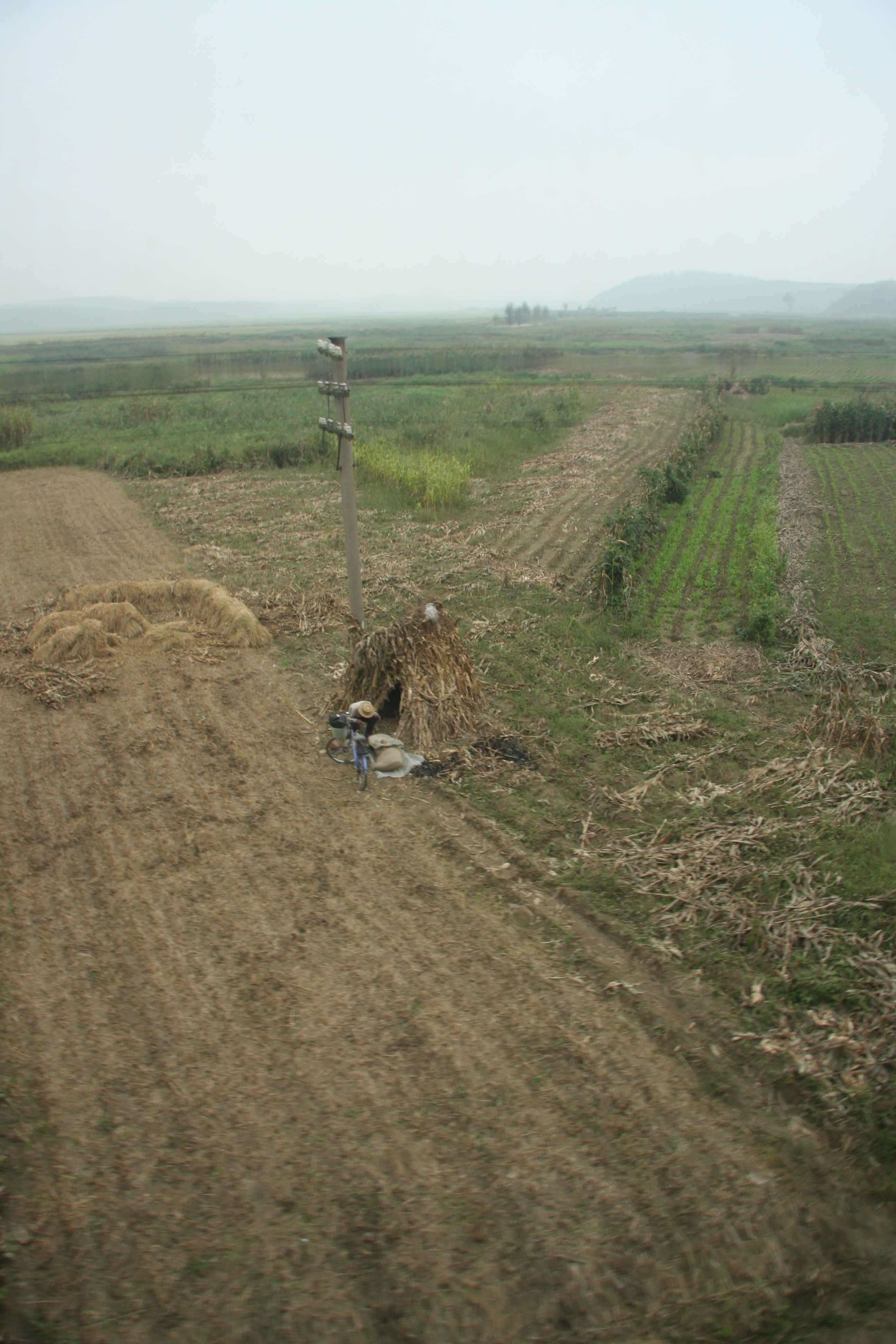 Fields in North Korea.